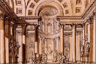 The sketch for decorations to Tsefal i Prokris.